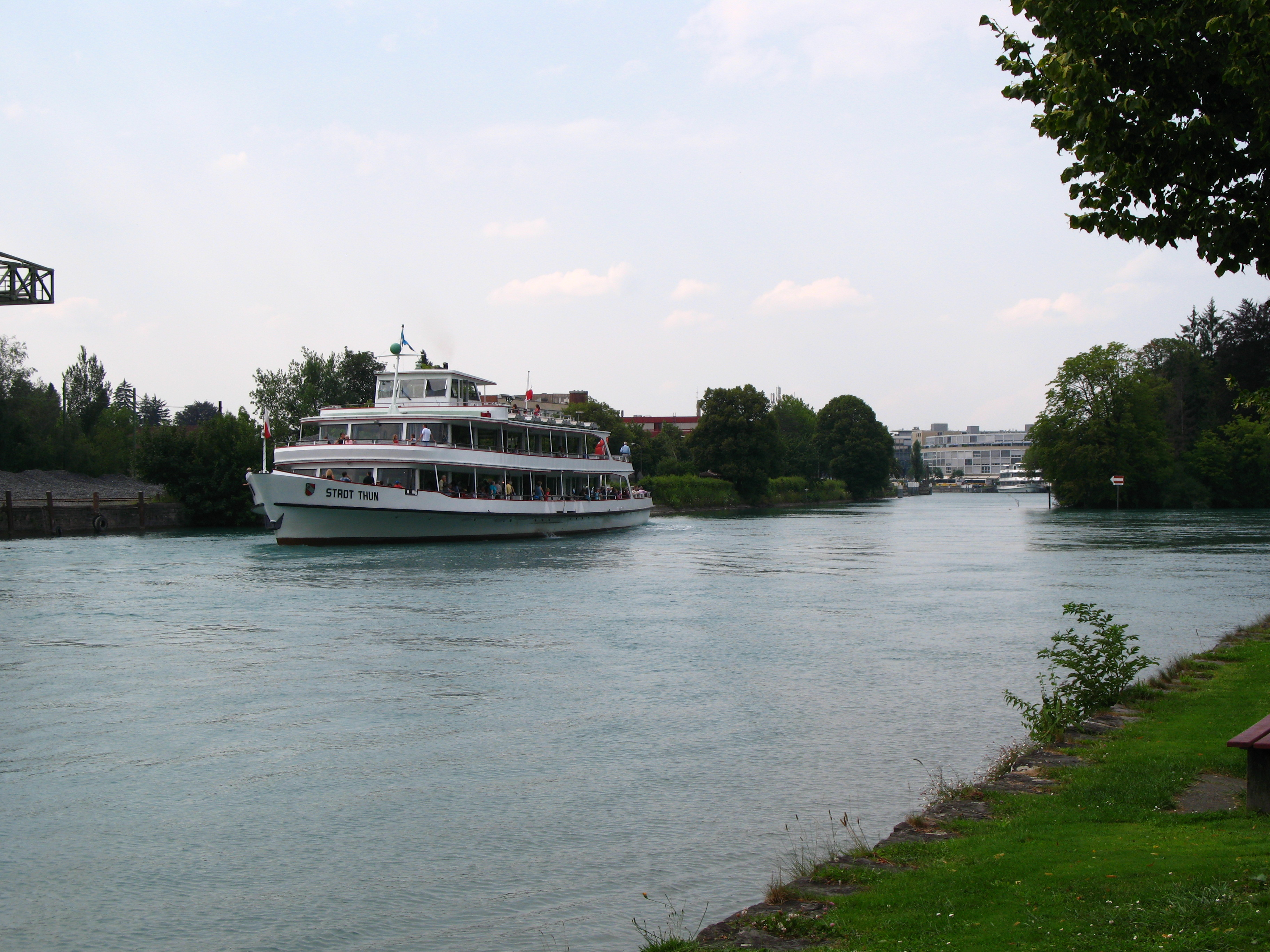 Ship Canal, Thun, Switzerland